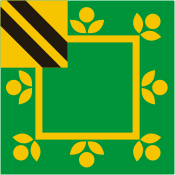 Flag of the former Estonian municipality of Lavassaare. Adopted 27 April 2004, granted 14 May 2004